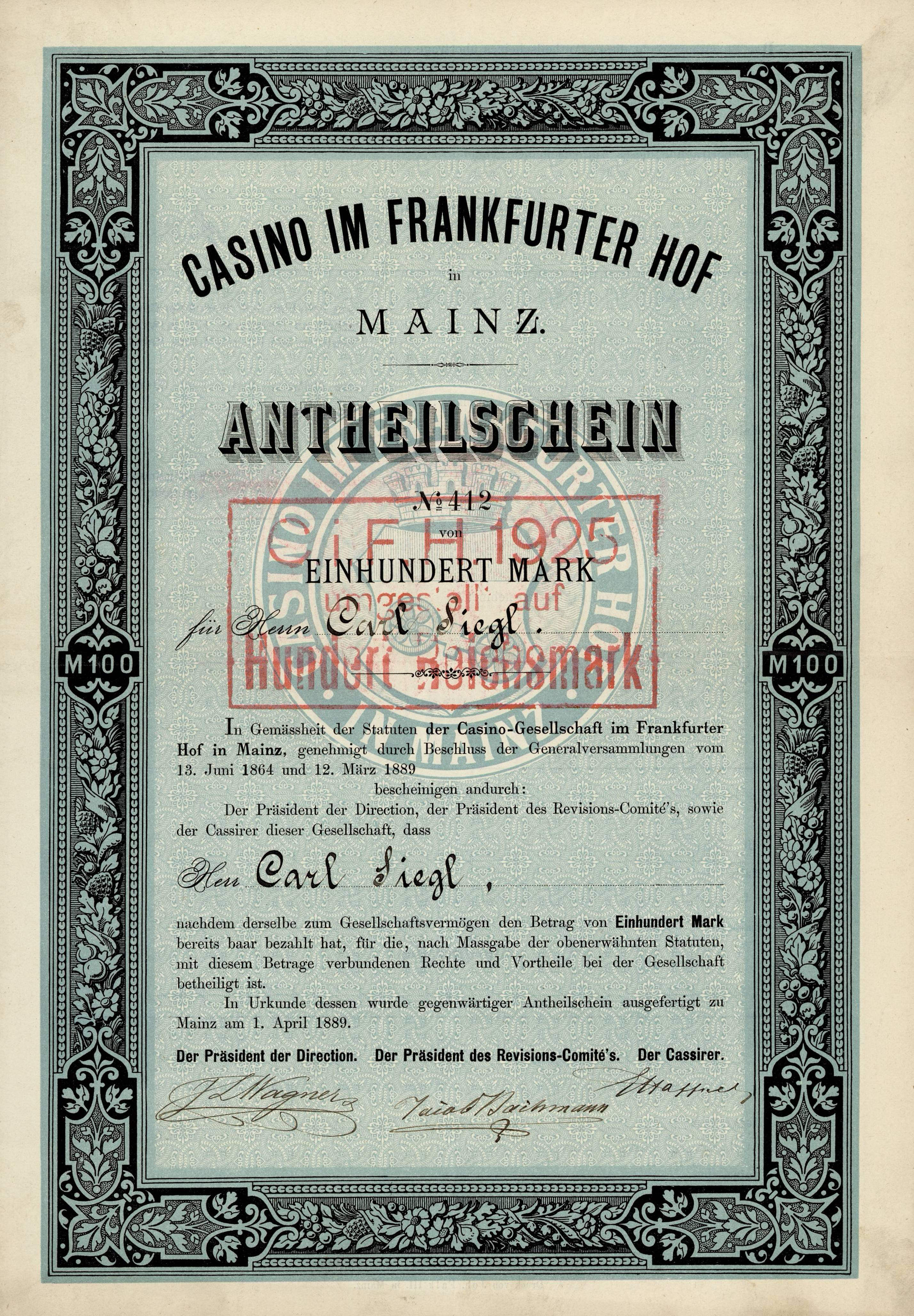 Share certificate of the Casino im Frankfurter Hof in Mainz, issued 1. April 1889